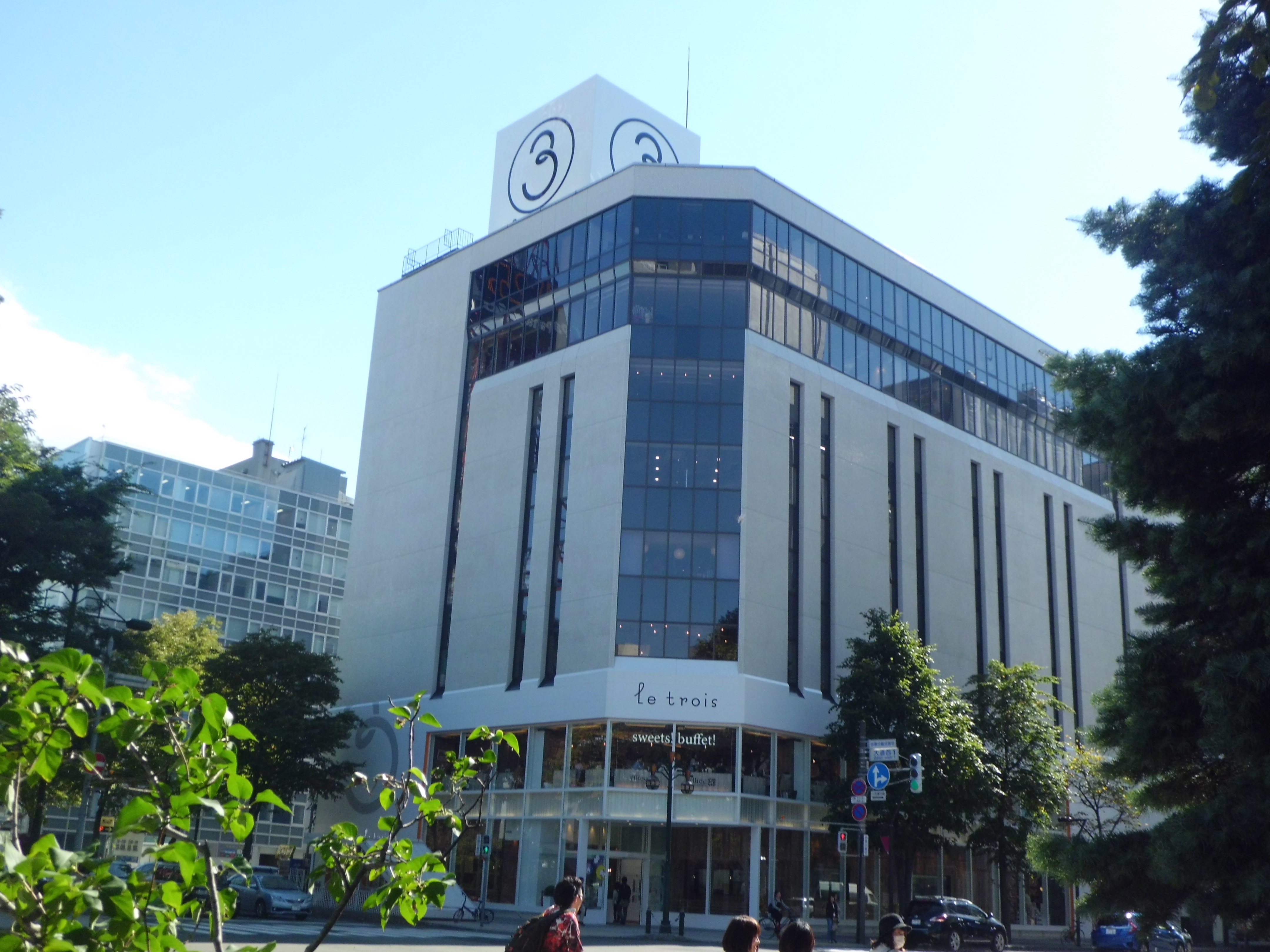 Le Trois of Sapporo